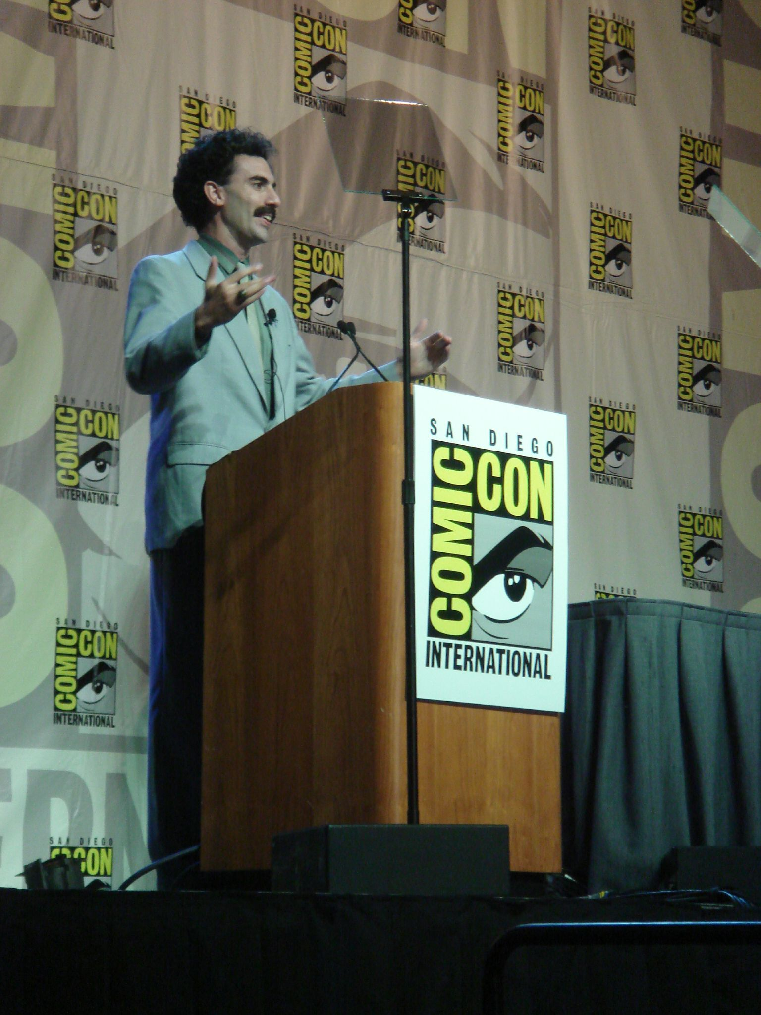 Borat at the San Diego ComicCon in 2006, promoting his movie.